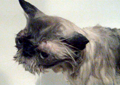 Bluna the Himalayan cat while taking a shower